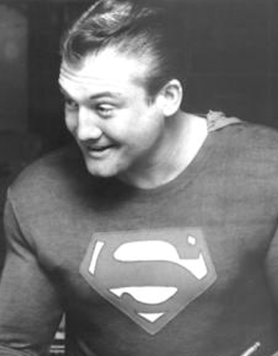 George Reeves at the Patio Restaurant - Hess Brothers - Allentown PA